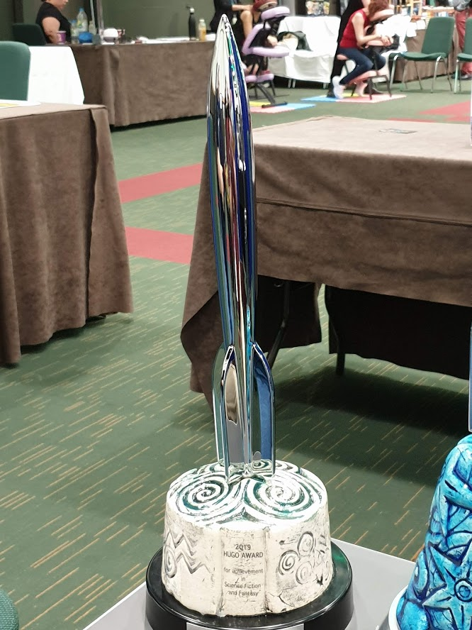 A Hugo Award, presented annually at the World Science Fiction Convention for the best science fiction or fantasy works and achievements of the previous year. The illustrated Hugo Award is the design used in 2019, at the 77th World Science Fiction Convention in Dublin, and features a base in ceramic designed by Jim Fitzpatrick.